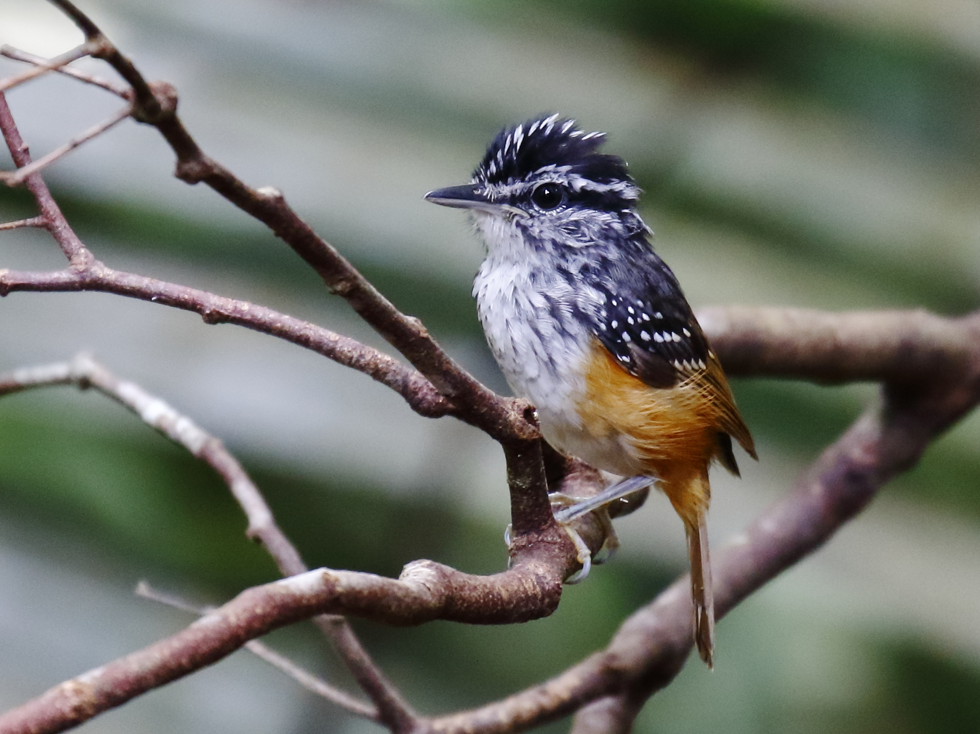 Warbling antbird (male) at Presidente Figueiredo, Amazonas, Brazil